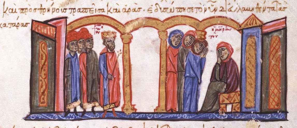 Romanos II tries to expel his mother, Helena Lekapene, and sisters from the palace